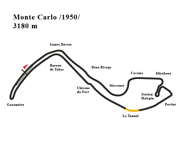 Layout of the Mote Carlo circuit (1950).